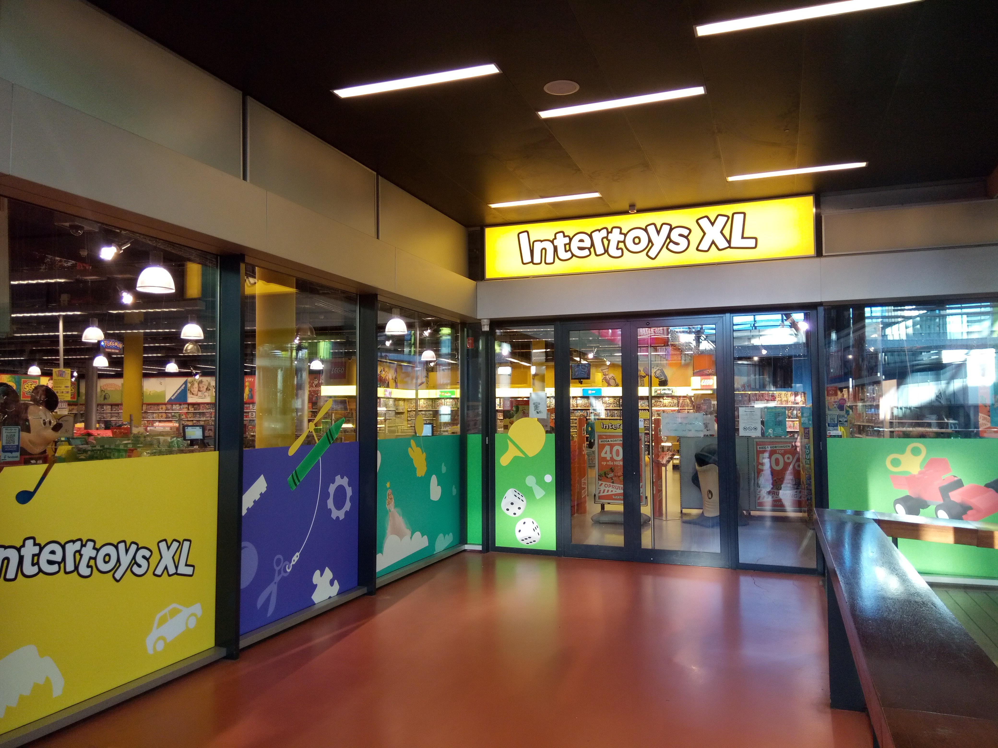 IntertoysXL Store in Hoofddorp